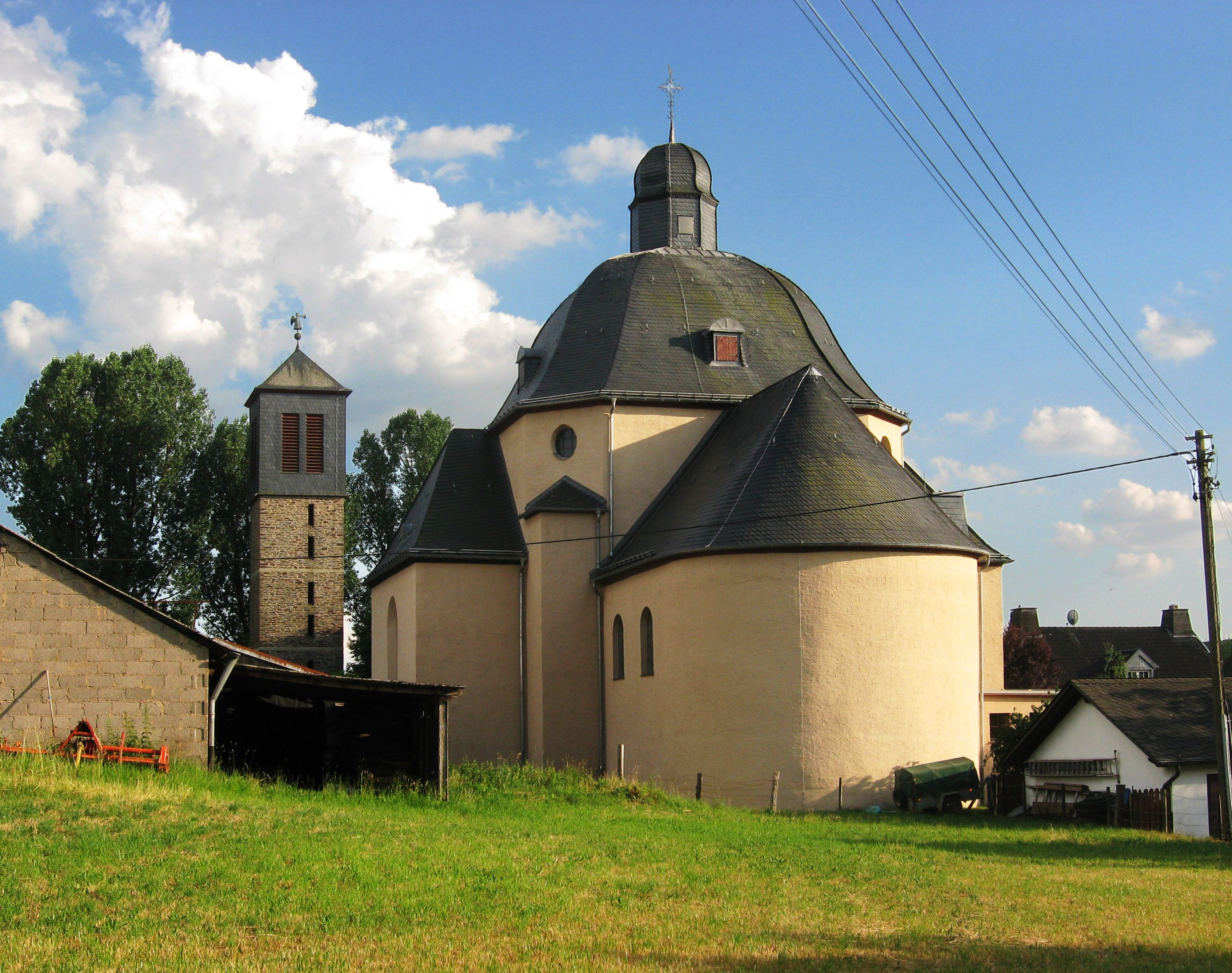 Church in Pronsfeld